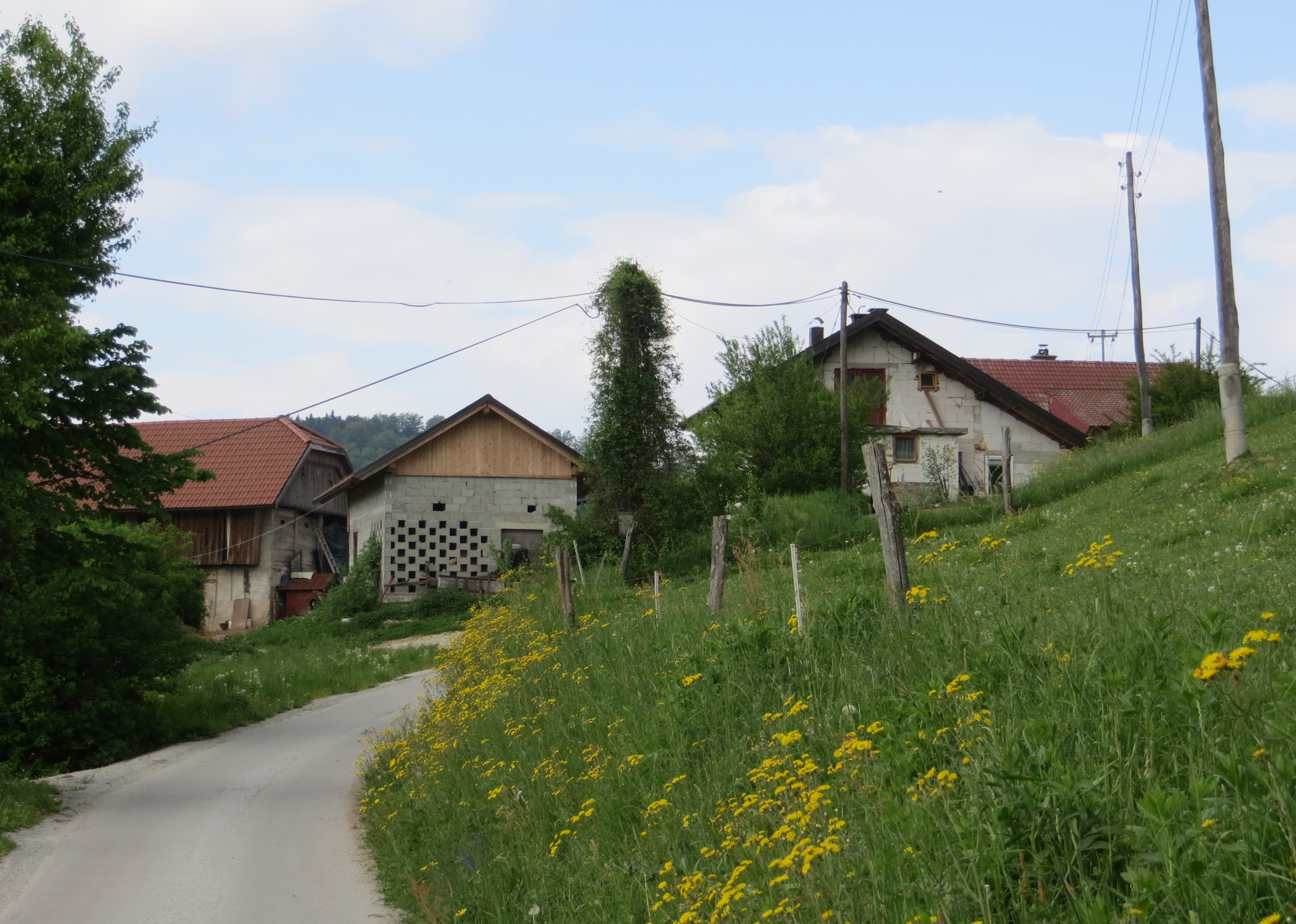 Vrata, Municipality of Šmartno pri Litiji, Slovenia